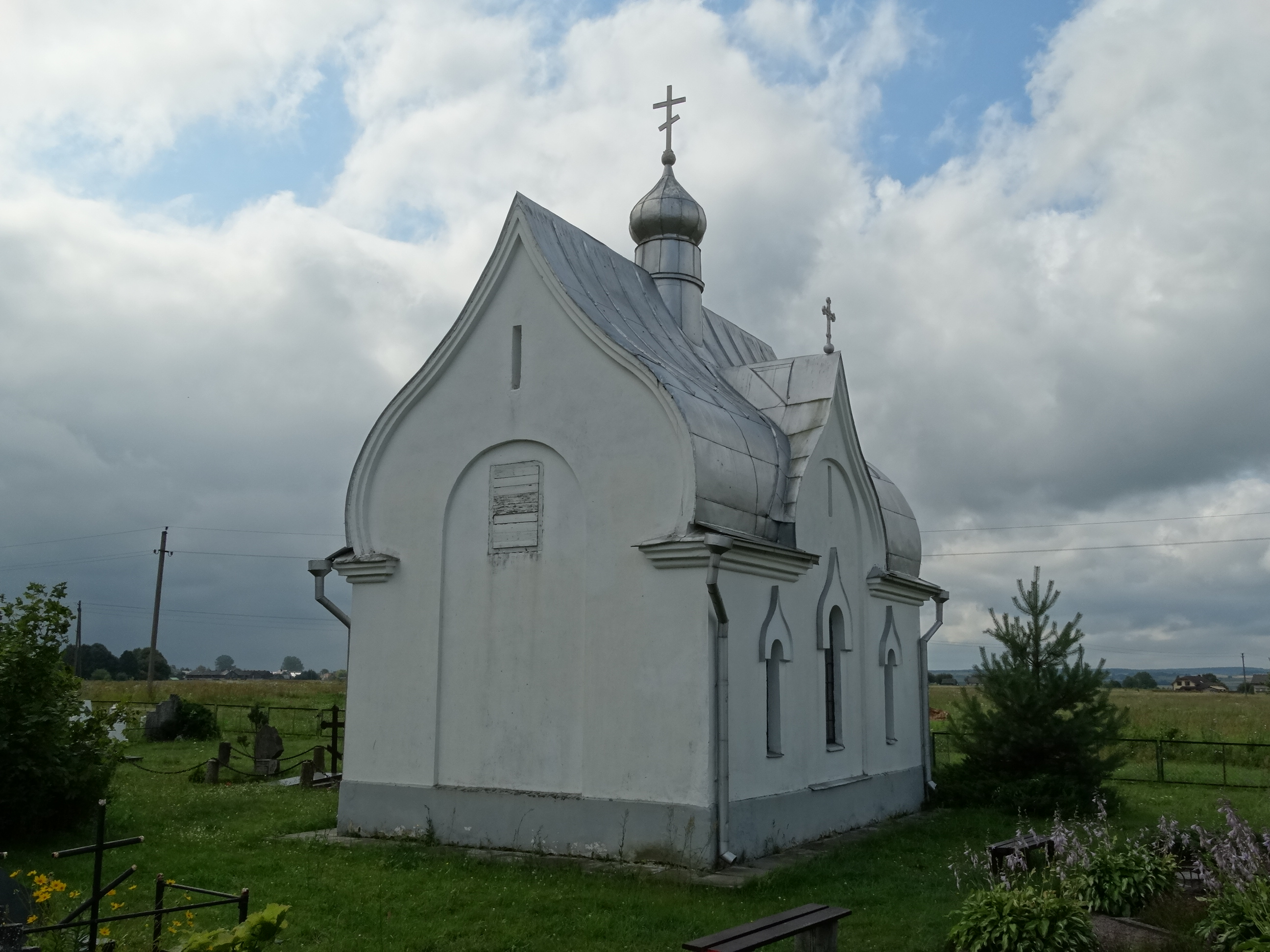 Orthodox сhapel in cemetery, Vievis, Lithuania